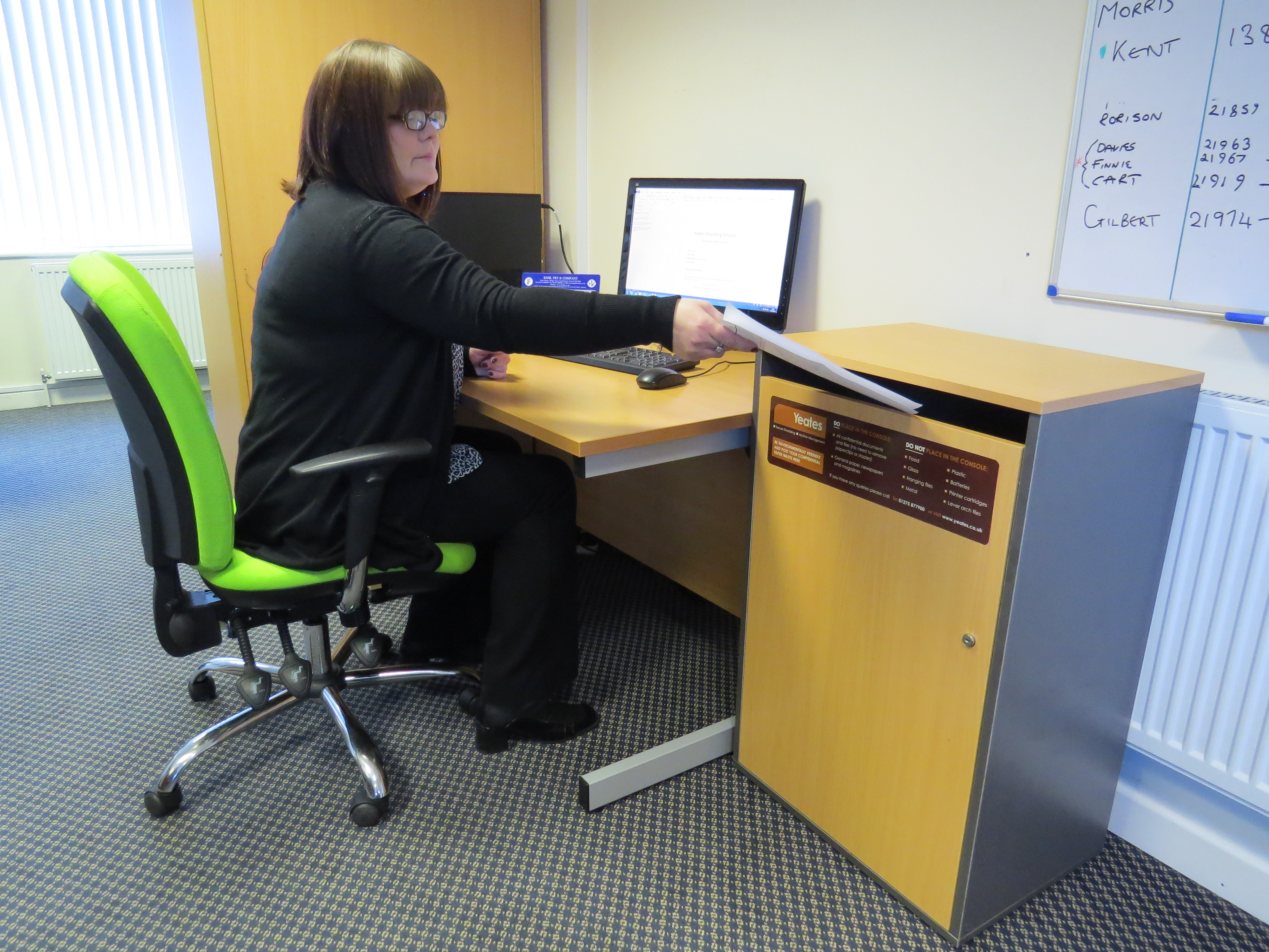 Shredding console Yeates.